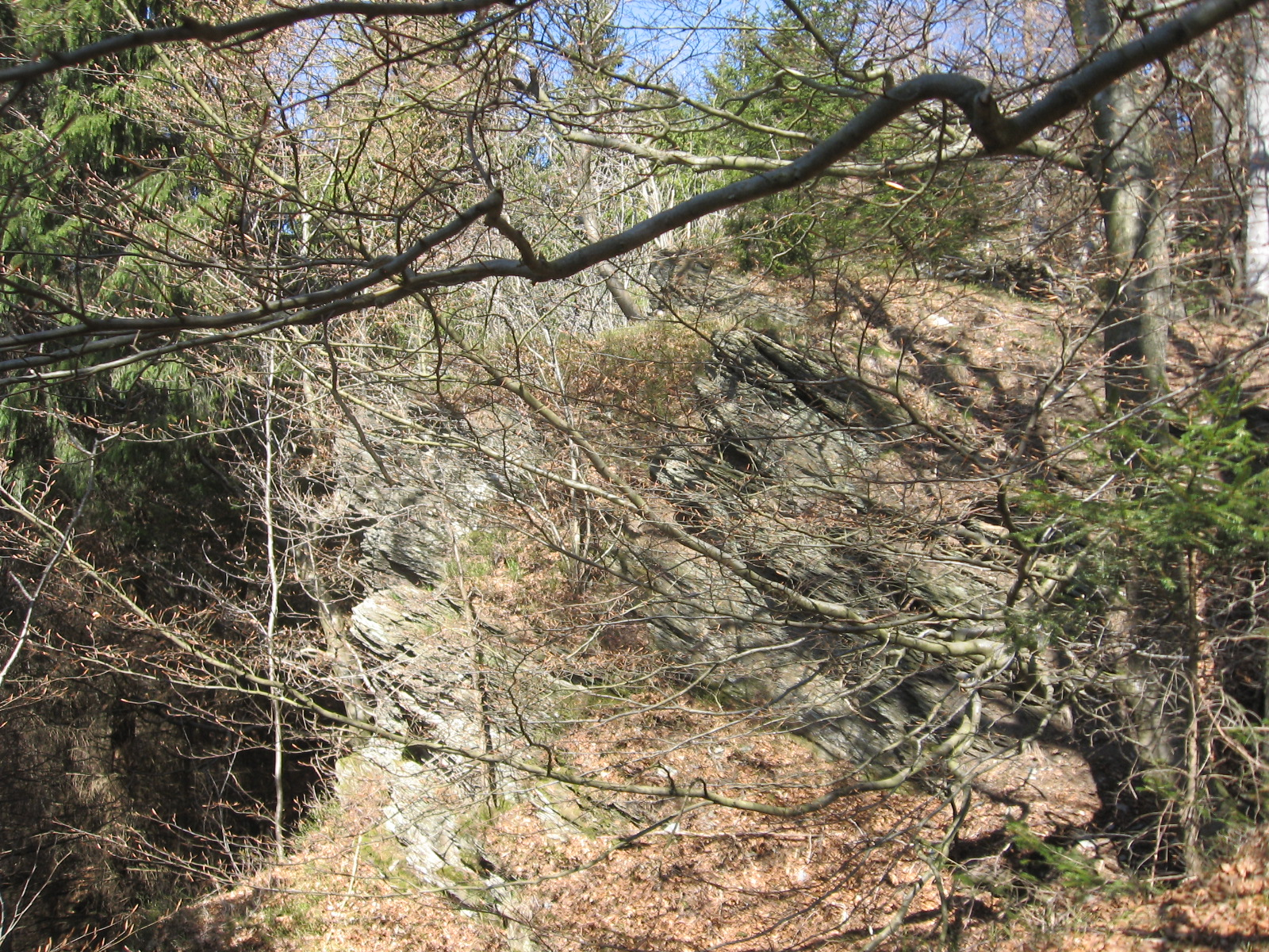 Teilbereich des Naturdenkmals Mannstein südwestlich von Olsberg-Wulmeringhausen in Nordrhein-Westfalen.